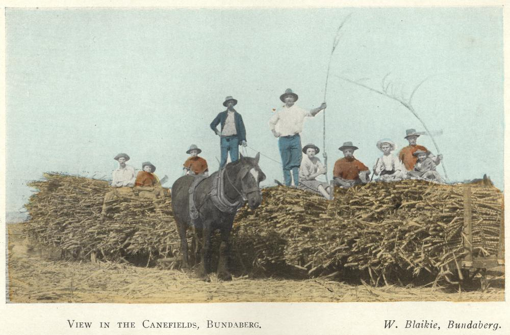 Group of workers posing on top of bundles of cut cane, Bundaberg, ca. 1914 Bundaberg is situated at the southern tip of the Great Barrier Reef. Four hours drive north from Brisbane, Bundaberg is located in the heart of a rich sugar and horticultural belt. Bundaberg is identified with the locally manufactured Austoft Cane harvesters and famous Bundaberg Rum. This photograph is part of a hand coloured publication titled 'Souvenir of Bundaberg', published by W. Blaikie, Bundaberg, ca. 1914.